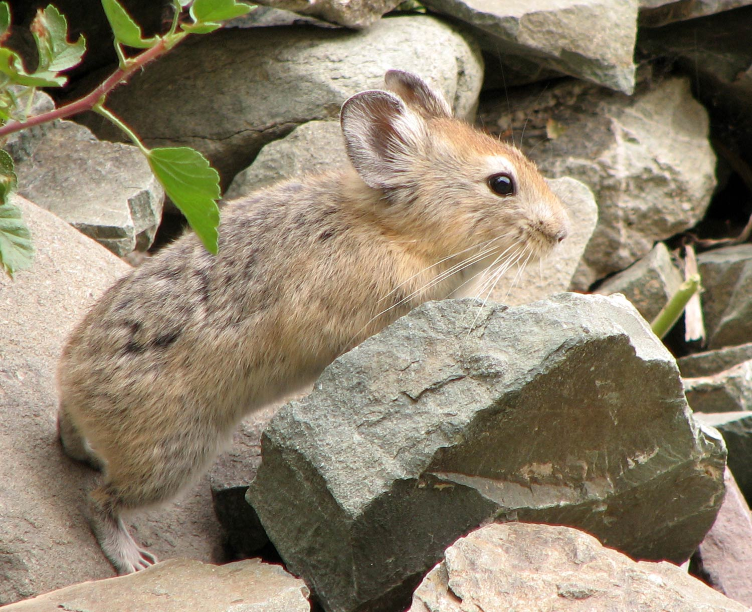 We found plenty of Pikas all over Ladakh. These small creatures blend very well with the surrounding stones and rocks, and move pretty fast.